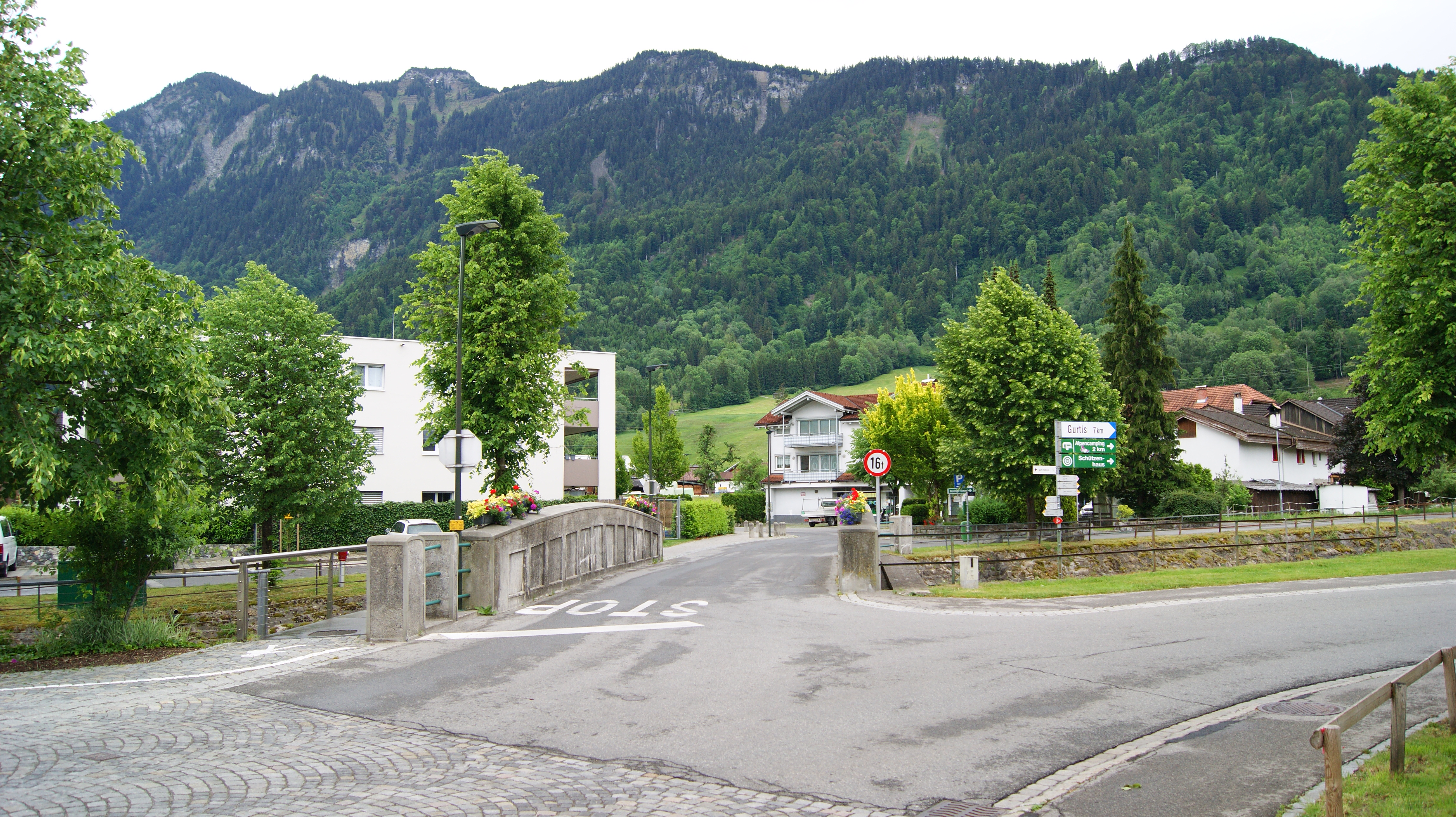 Mengbrücke in Nenzing in Vorarlberg, Austria. Monument protected object (ObjektID: 87950).